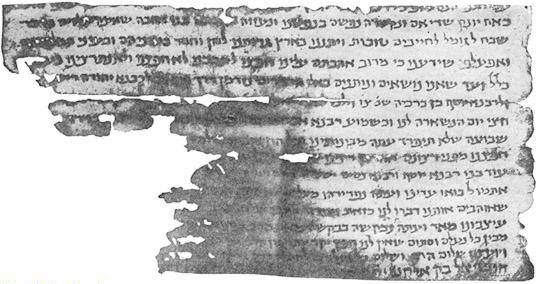 Letter of Chushiel ben Elchanan, from the 1906 Jewish Encyclopedia